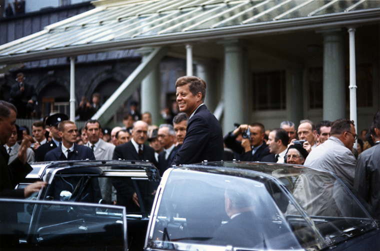 President John F. Kennedy in Ireland.